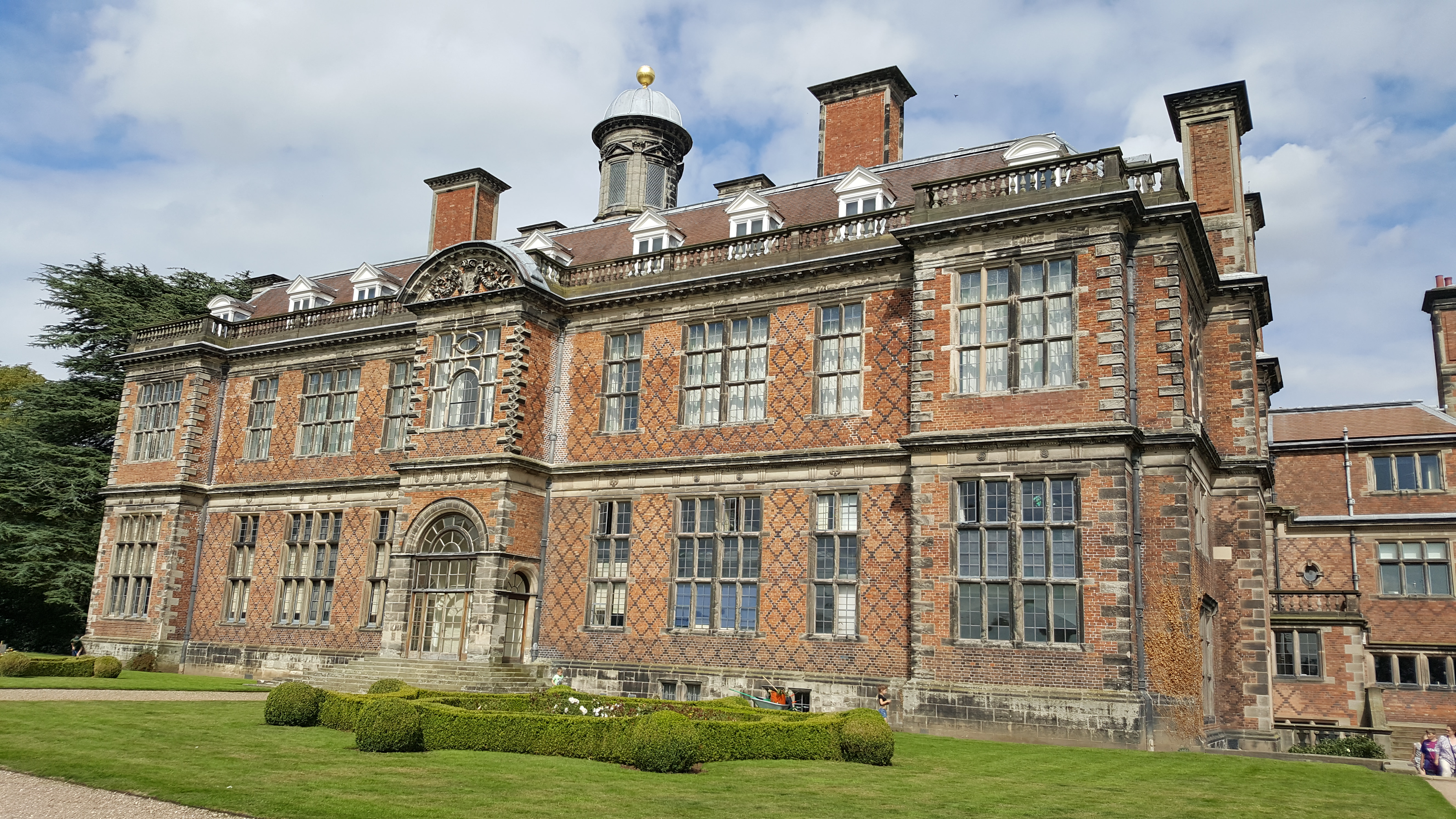 Sudbury Hall